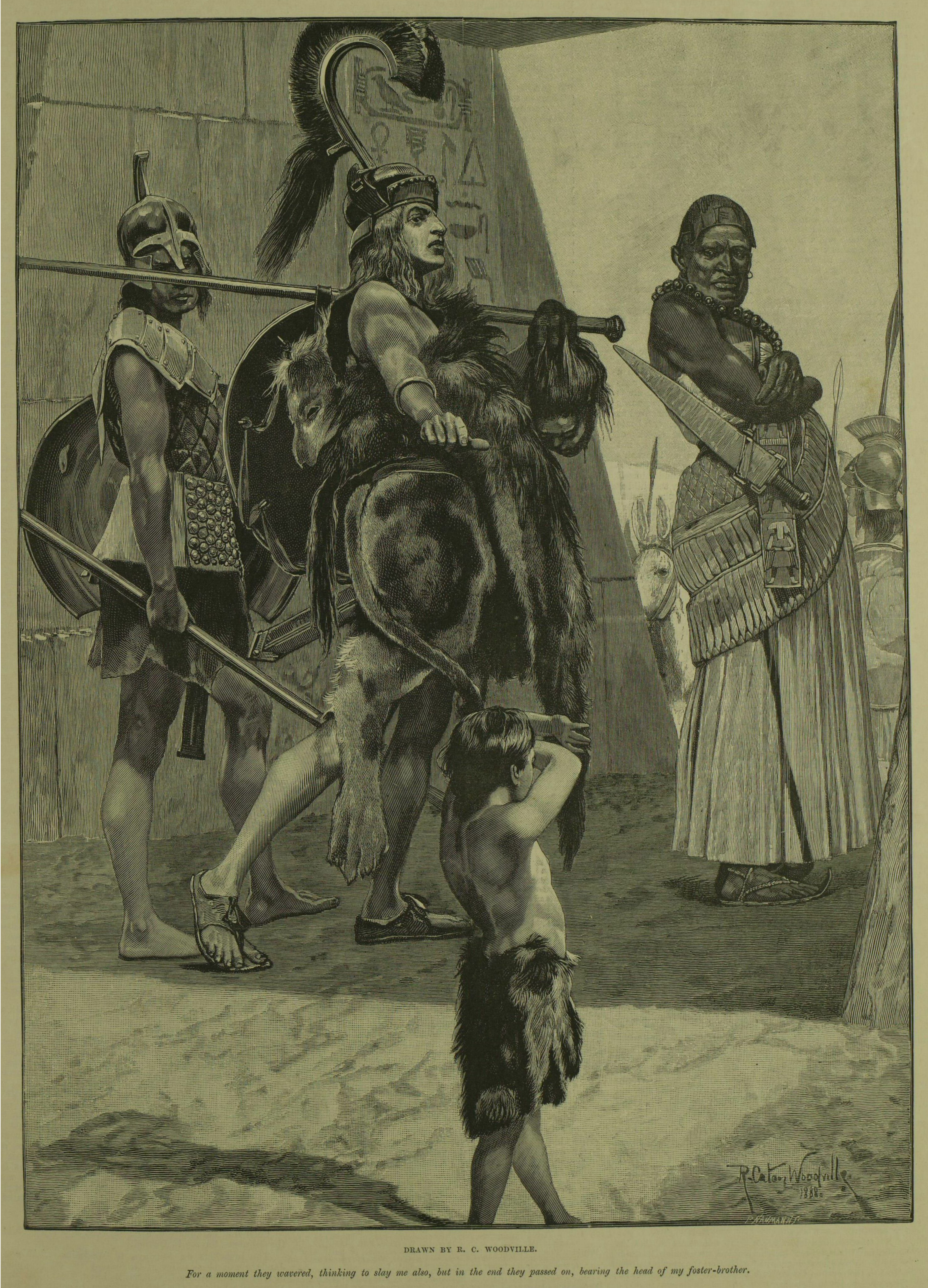 Illustration by R Caton Woodville of a H. Rider Haggard short story, "Cleopatra", published in The Illustrated London News, 5 January 1889; pg. 11